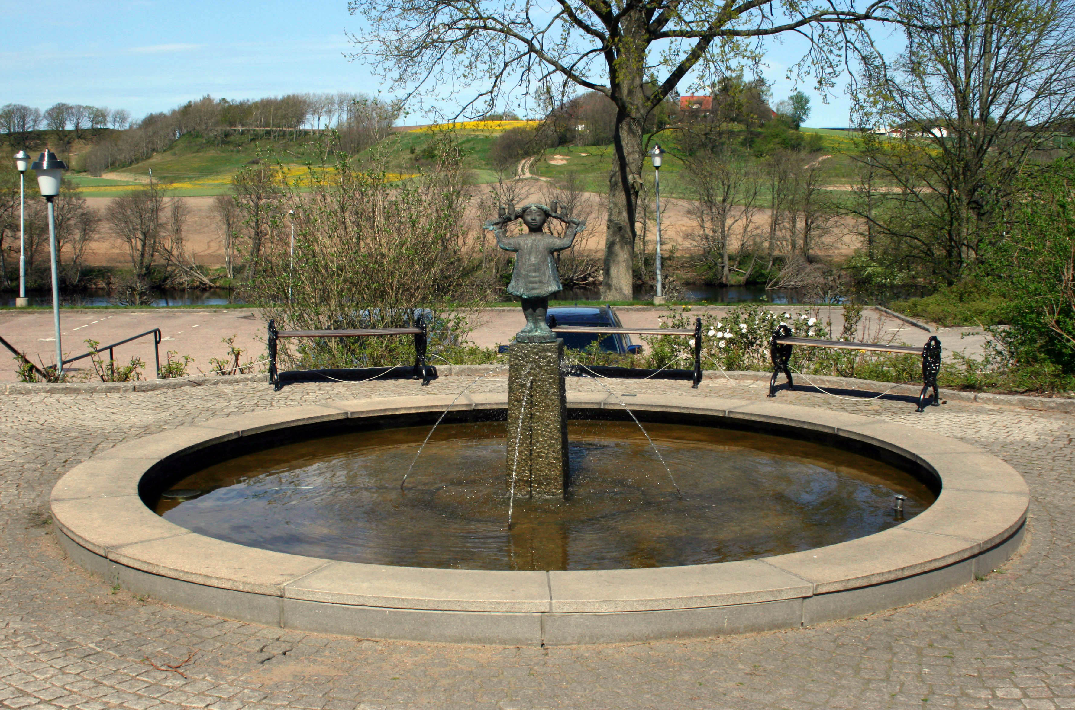 "Girl with birds in her hair" by Ernst Eberlein, 1974, Laholm, Sweden